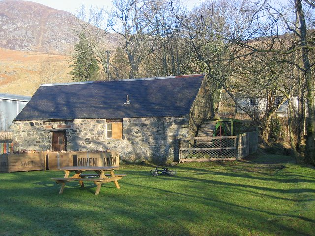 Mill, Clova. The mill of Millton, now in the grounds of the Glen Clova Hotel.